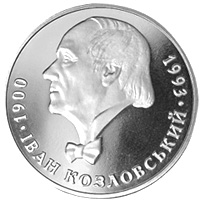 Coin of Ukraine